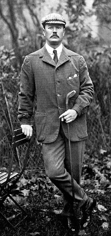 Sport, Golf, circa 1895, S,Mure Ferguson, who had his best finish when he came in 2nd to John Ball Jnr, in the British Amateur Championship of 1894